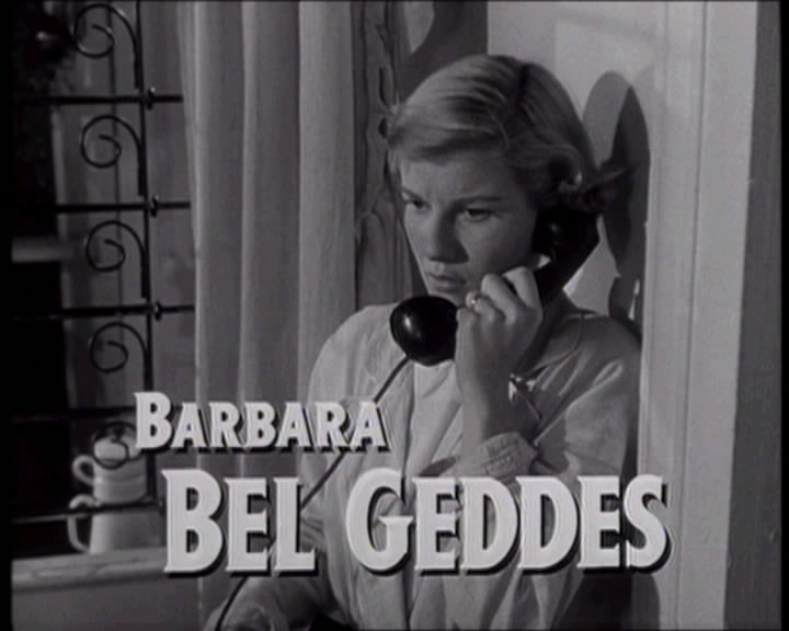 Panic in the Streets is a black and white, 96-minute film directed by Elia Kazan and released in 1950 by 20th Century Fox. It is film noir semidocumentary shot exclusively on location in New Orleans, Louisiana.